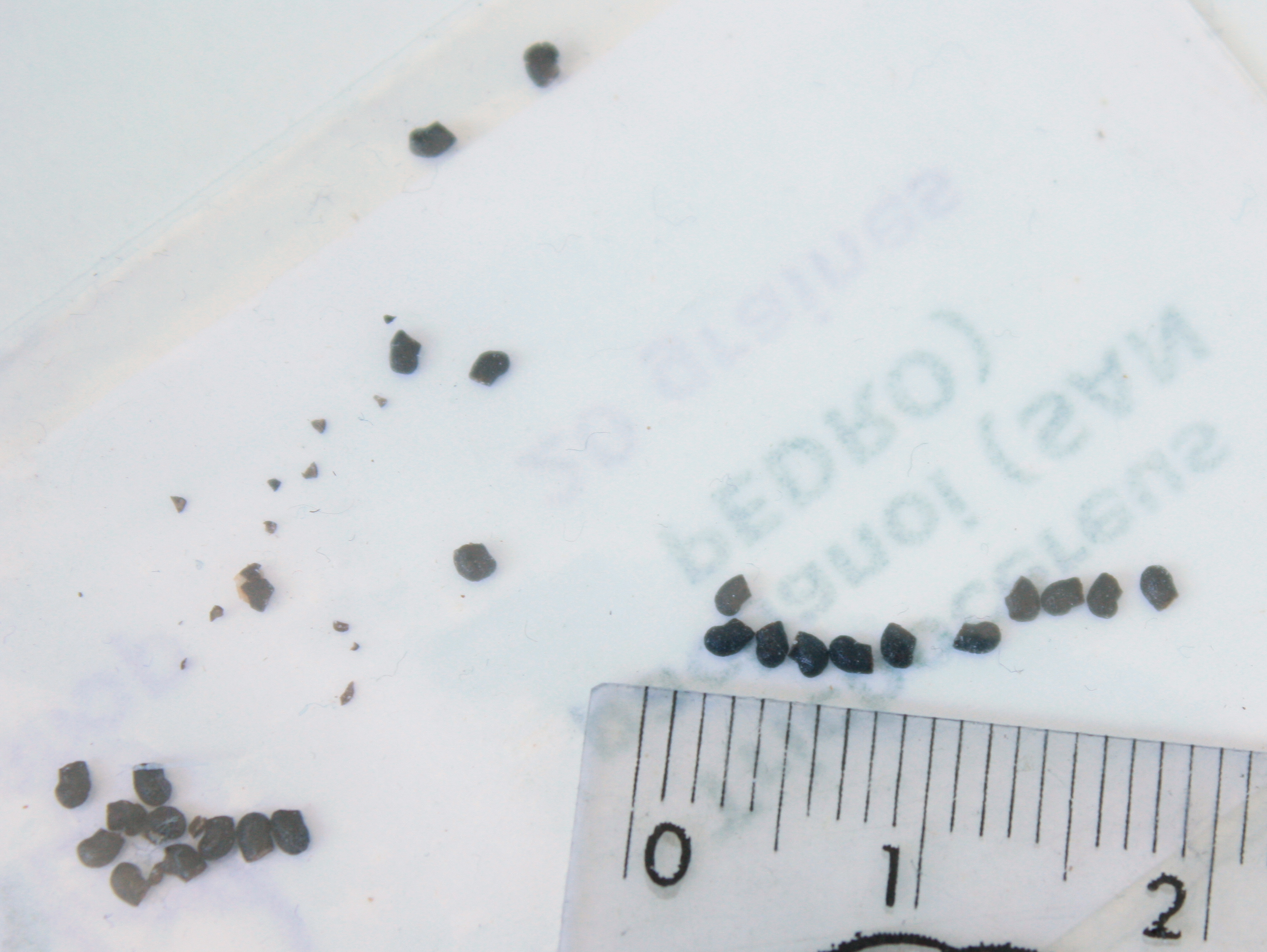 San Pedro cactus seeds (Echinopsis pachanoi, syn. Trichocereus pachanoi). The ruler is in centimeters.